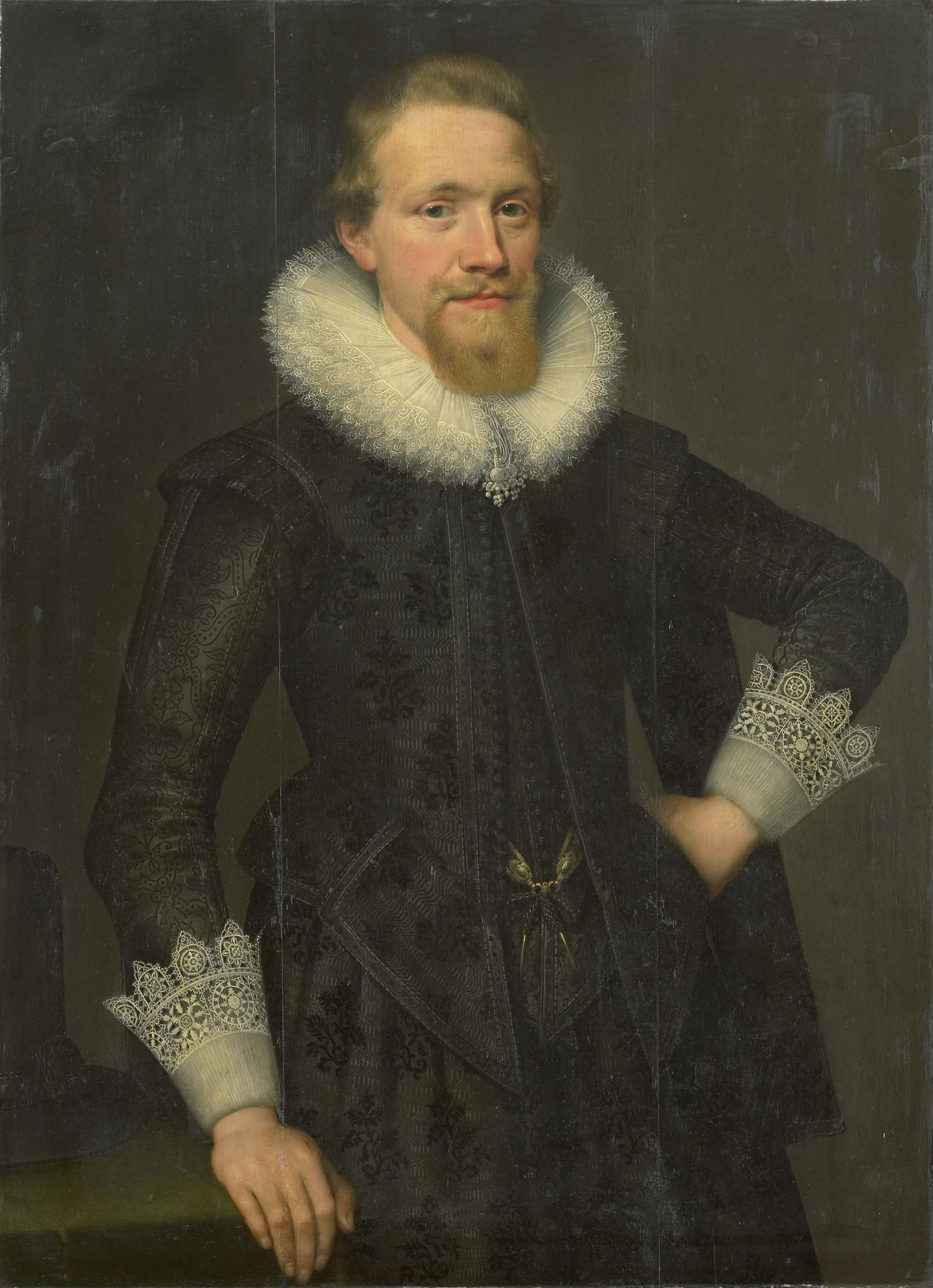 Portrait of Jacob Pergens. Standing, at half length, his left arm akimbo. Pendant of File:Salomon Mesdach 001.jpg